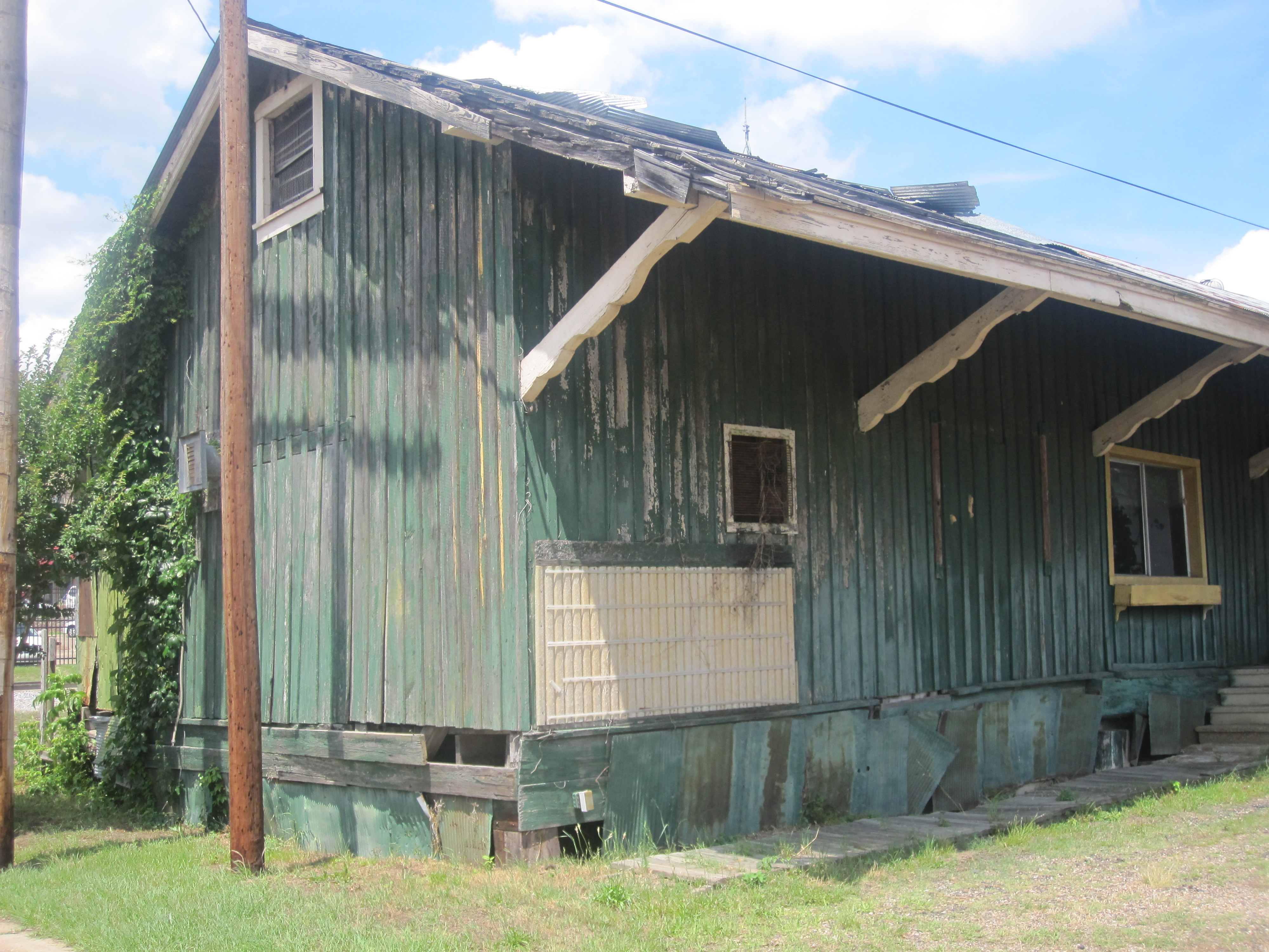 I took photo on May 22, 2010 in Ruston, LA, with Canon camera.